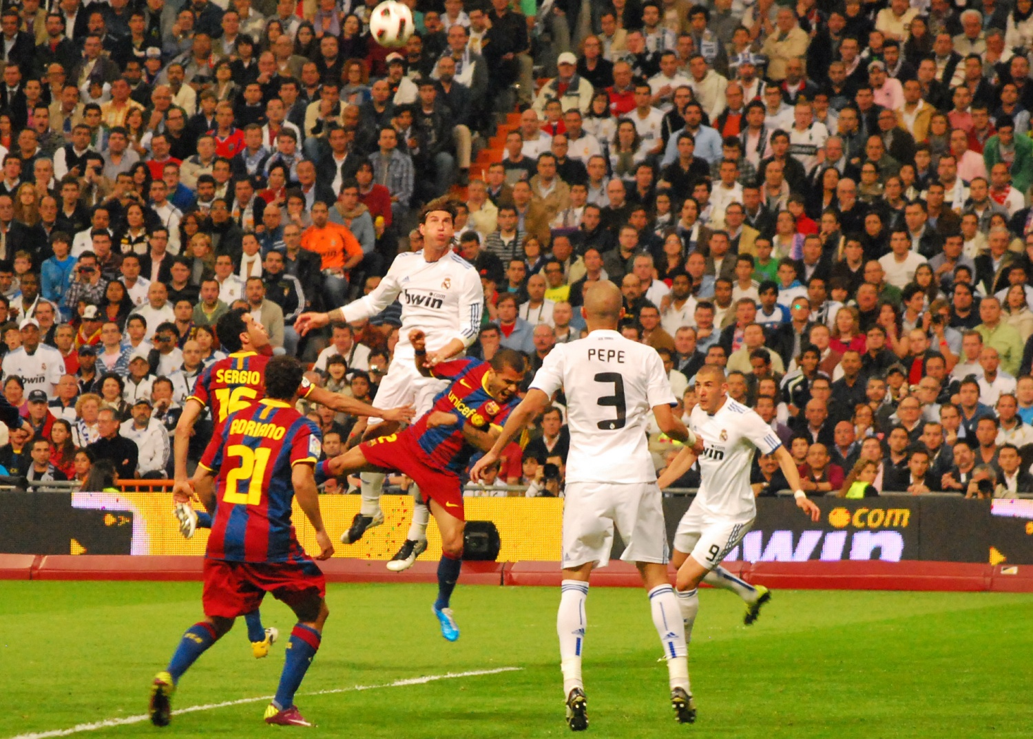 El Clásico